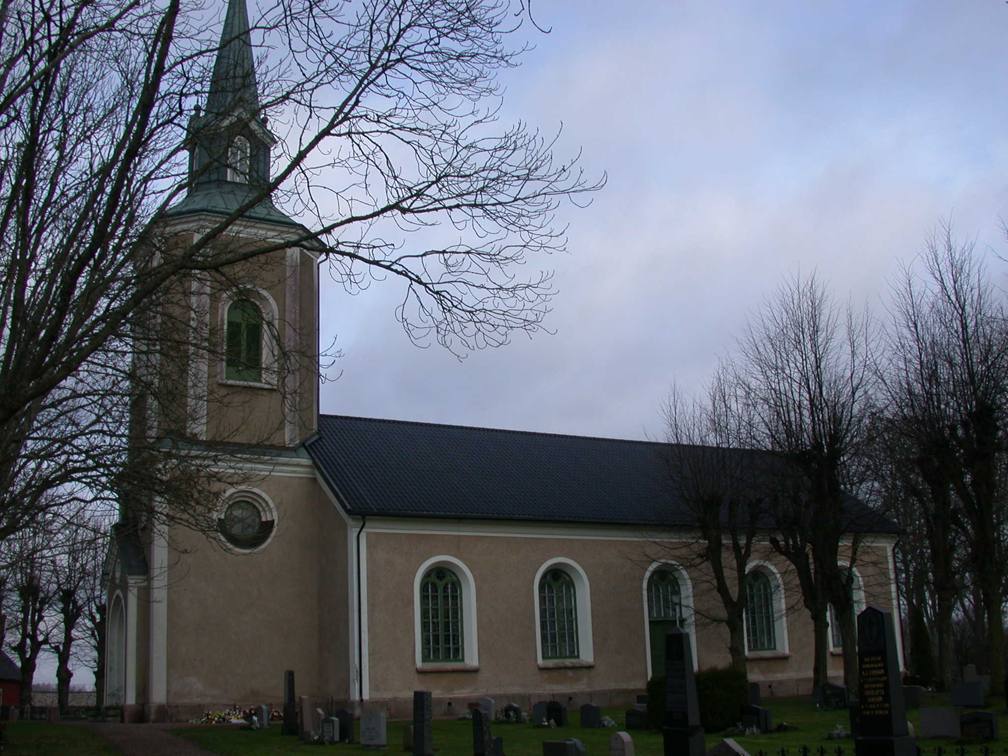 Utby Church, Mariestad, Sweden. Photo by Riggwelter, 2006.